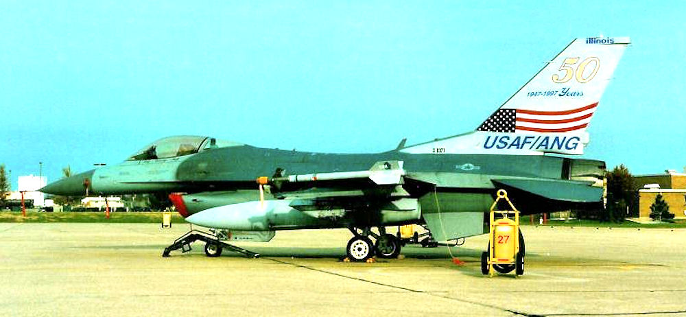 USAF F-16C block 30 #86-0371 from the 170th FS is adorned with the USAF/ANG 50th anniversary markings in 1997, which the photographer helped to design. [Photo by MSgt. Dale Jensen]